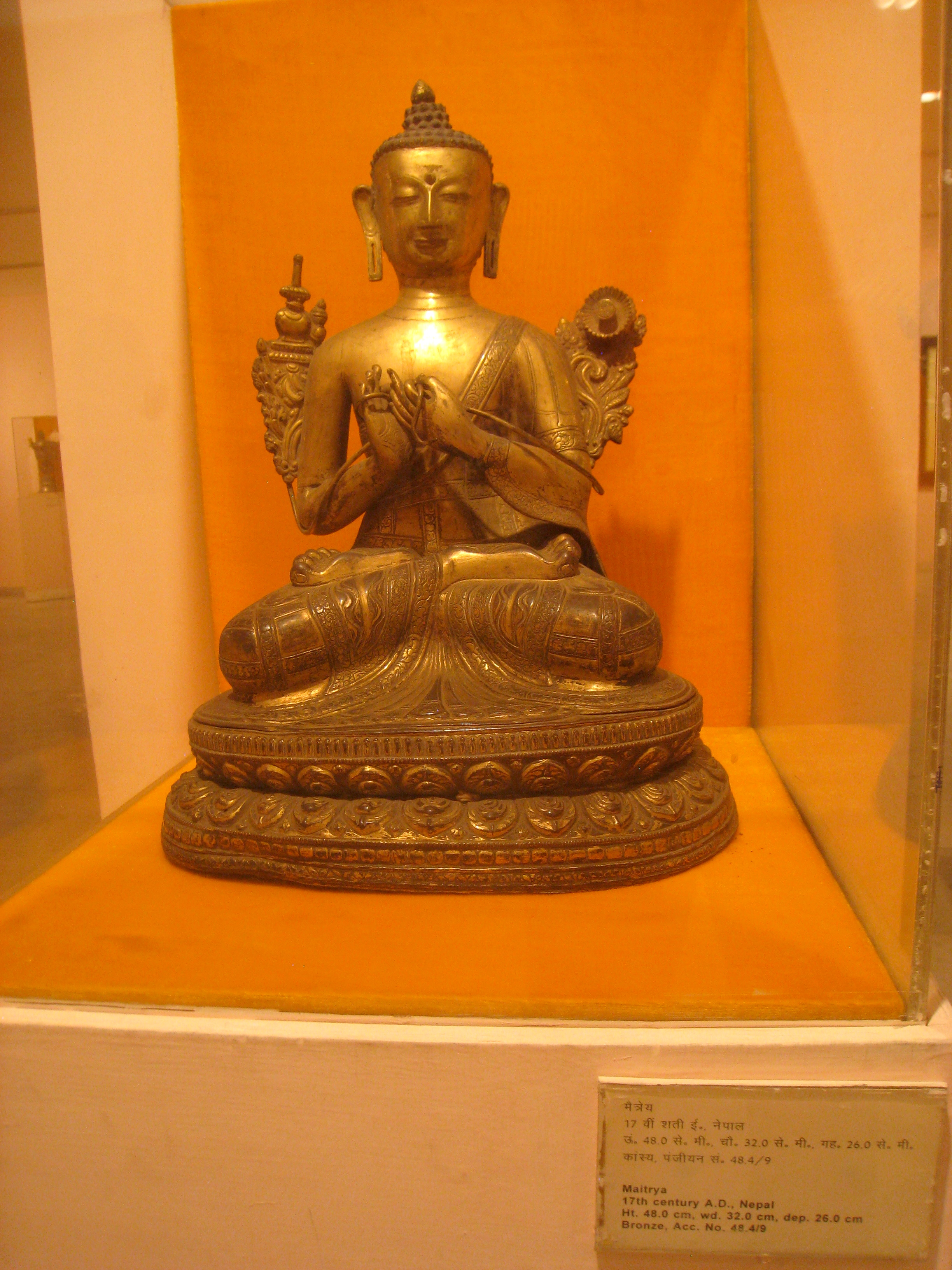 Maitrya, 17th century bronze, Nepal. Buddhist metal sculpture in National Museum, New Delhi, India.